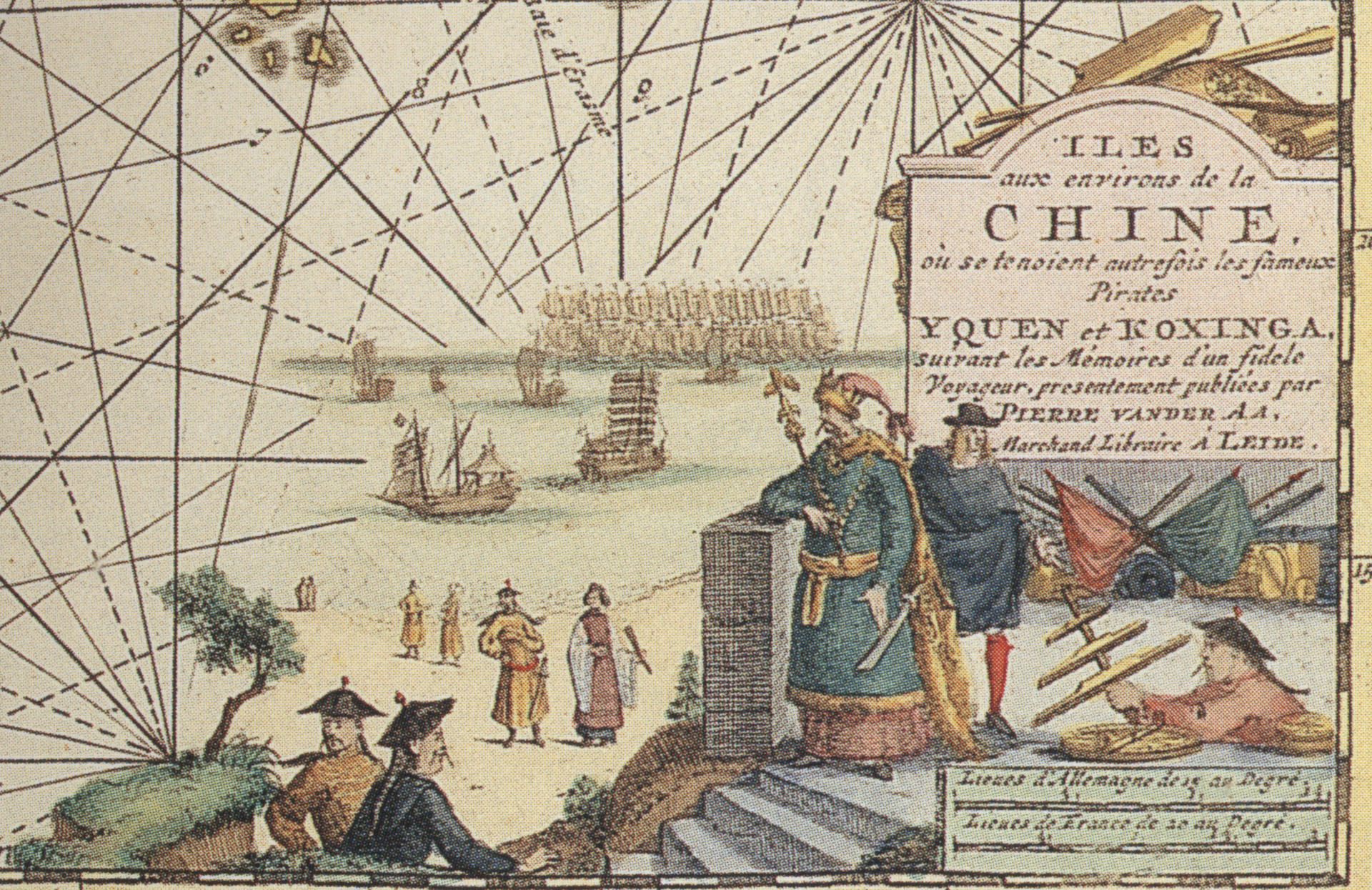 Zheng Zhilong Yguan (一官). In Western-language documents, he is also known as Iquan or Ikwan